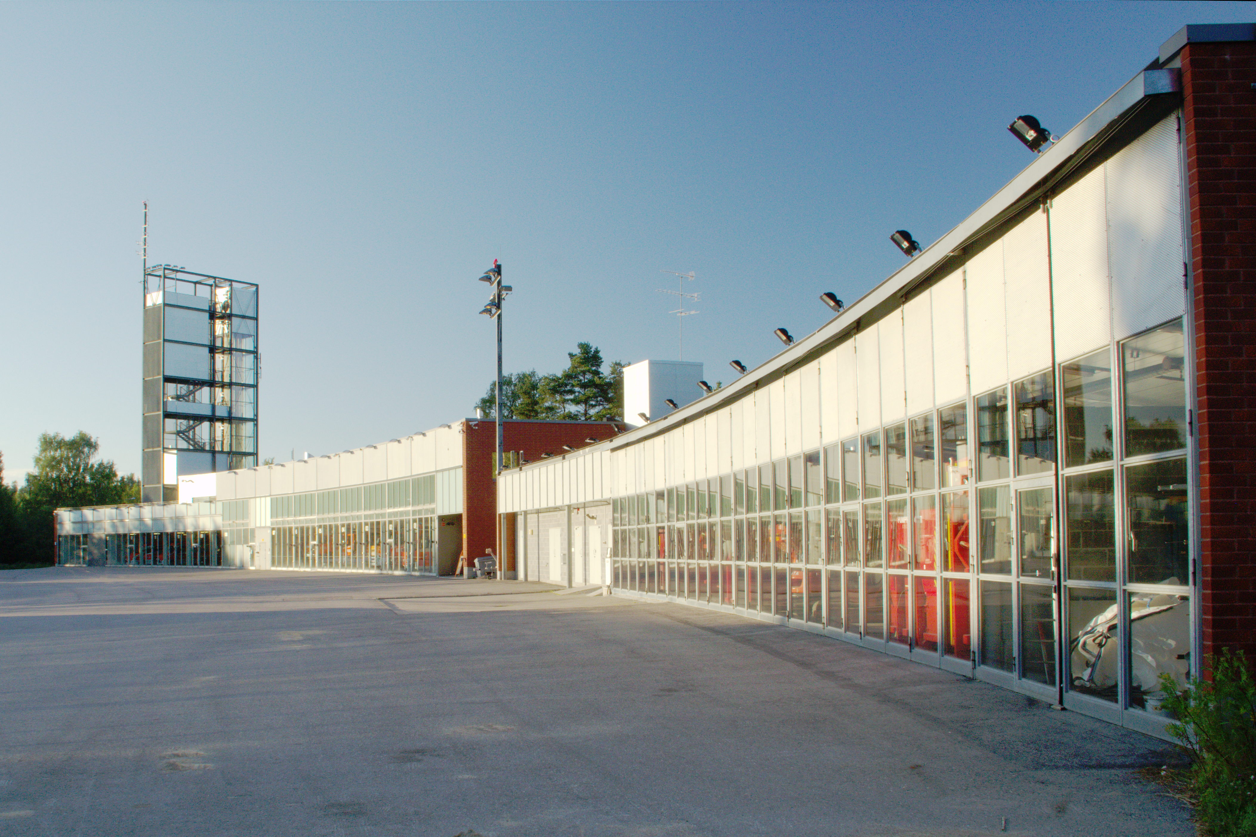 Mellunkylä Rescue Station in Helsinki